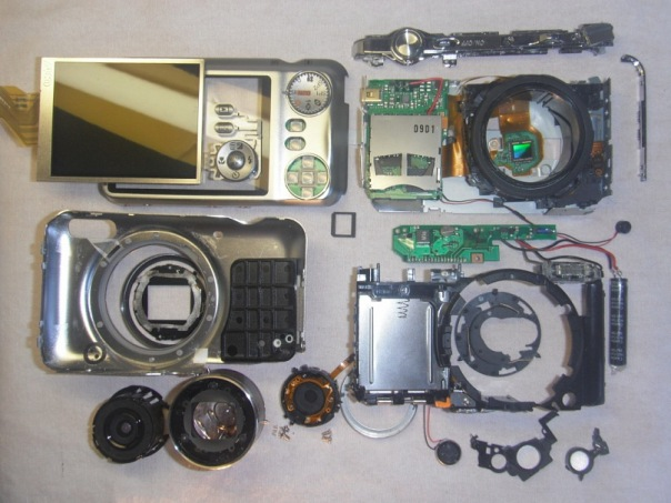 Disassembled Fujifilm digital camera